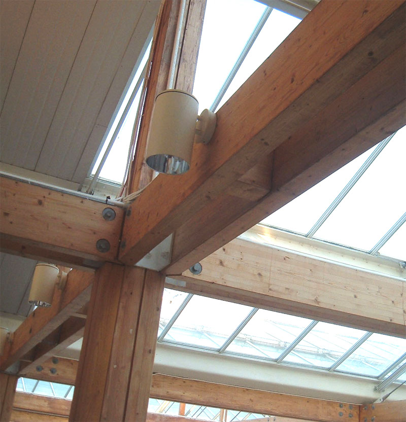 Glulam and steel plates form a frame for the top floor and roof of this building. Portland Building (School of Architecture), University of Portsmouth